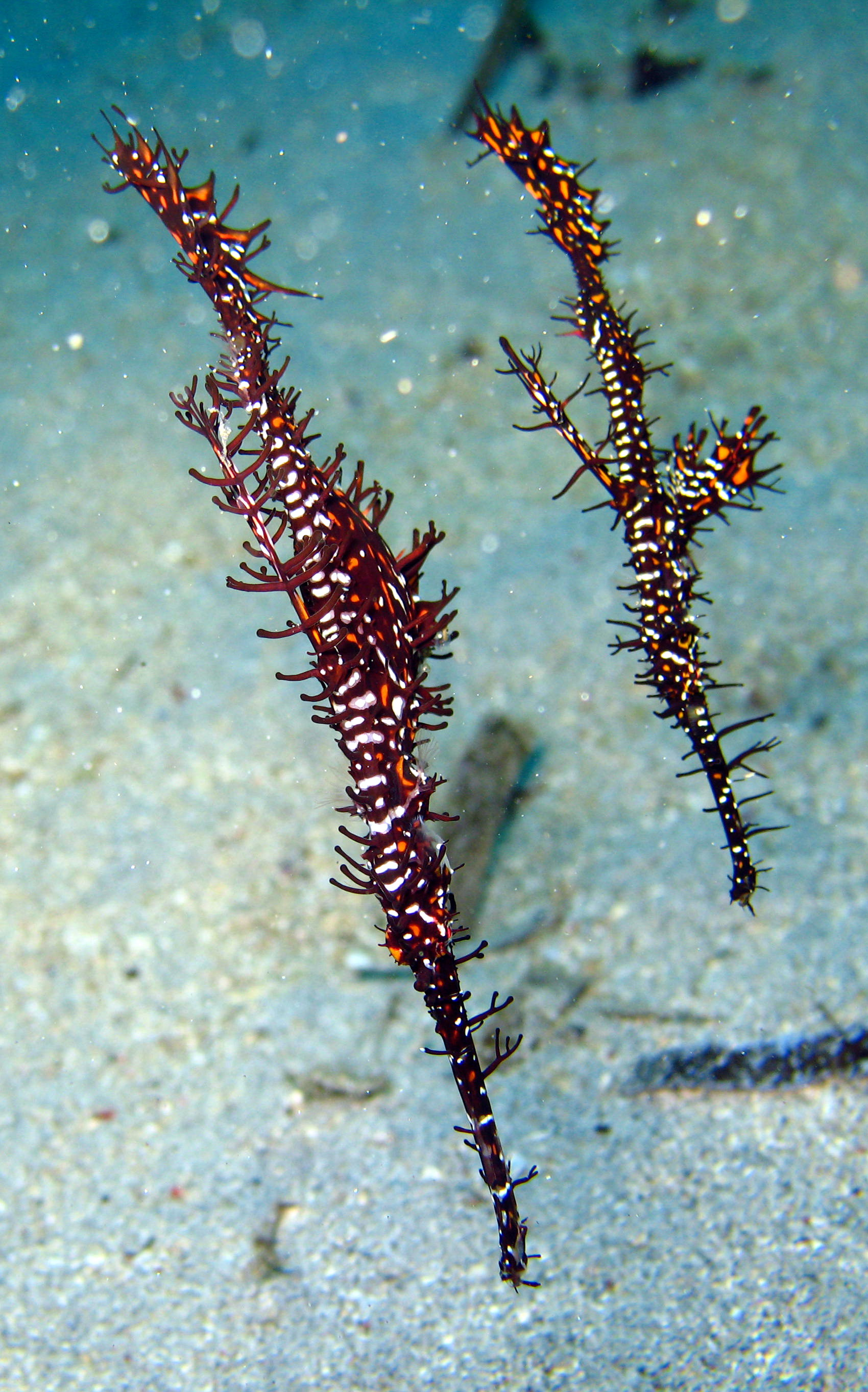 A pair of ornate ghost pipefish in Tanjung Bolung, North Sulawesi, Indonesia.